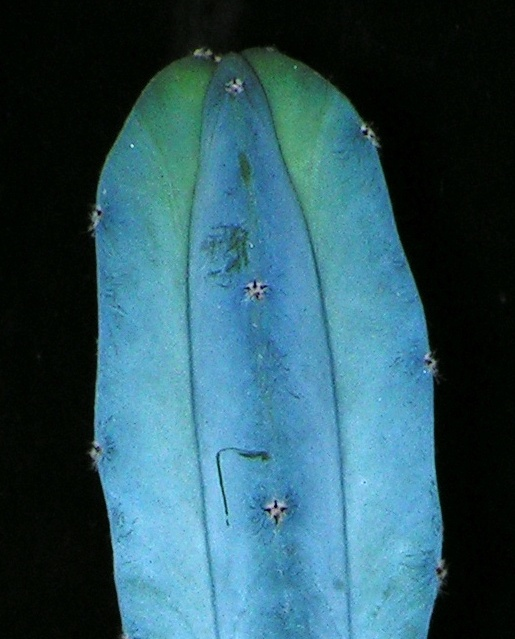 Myrtillocactus geometrizans; the upper part of the stem..